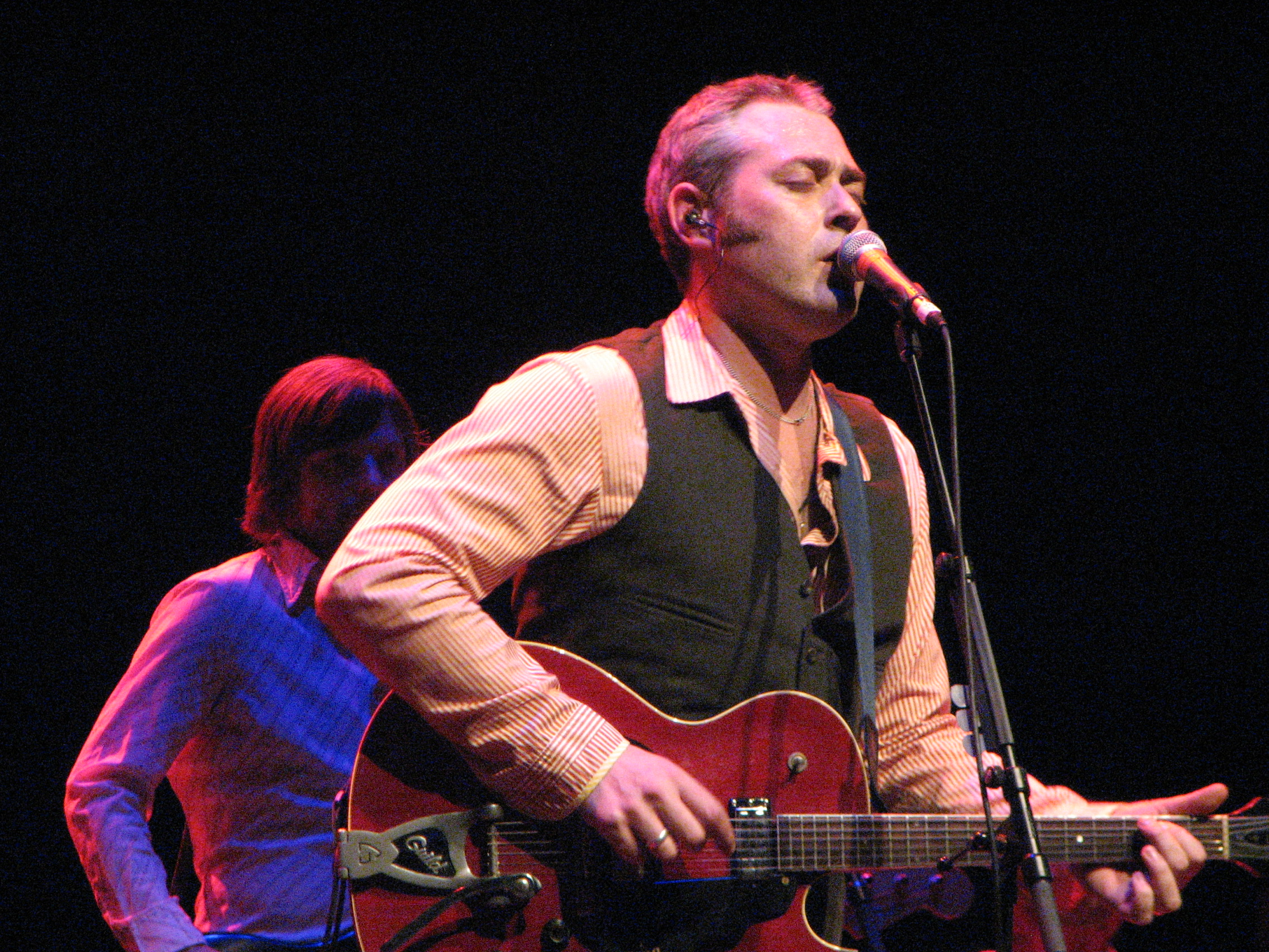 ChiShona: Tindersticks at the Royal Festival Hall, London on 3 May 2008.